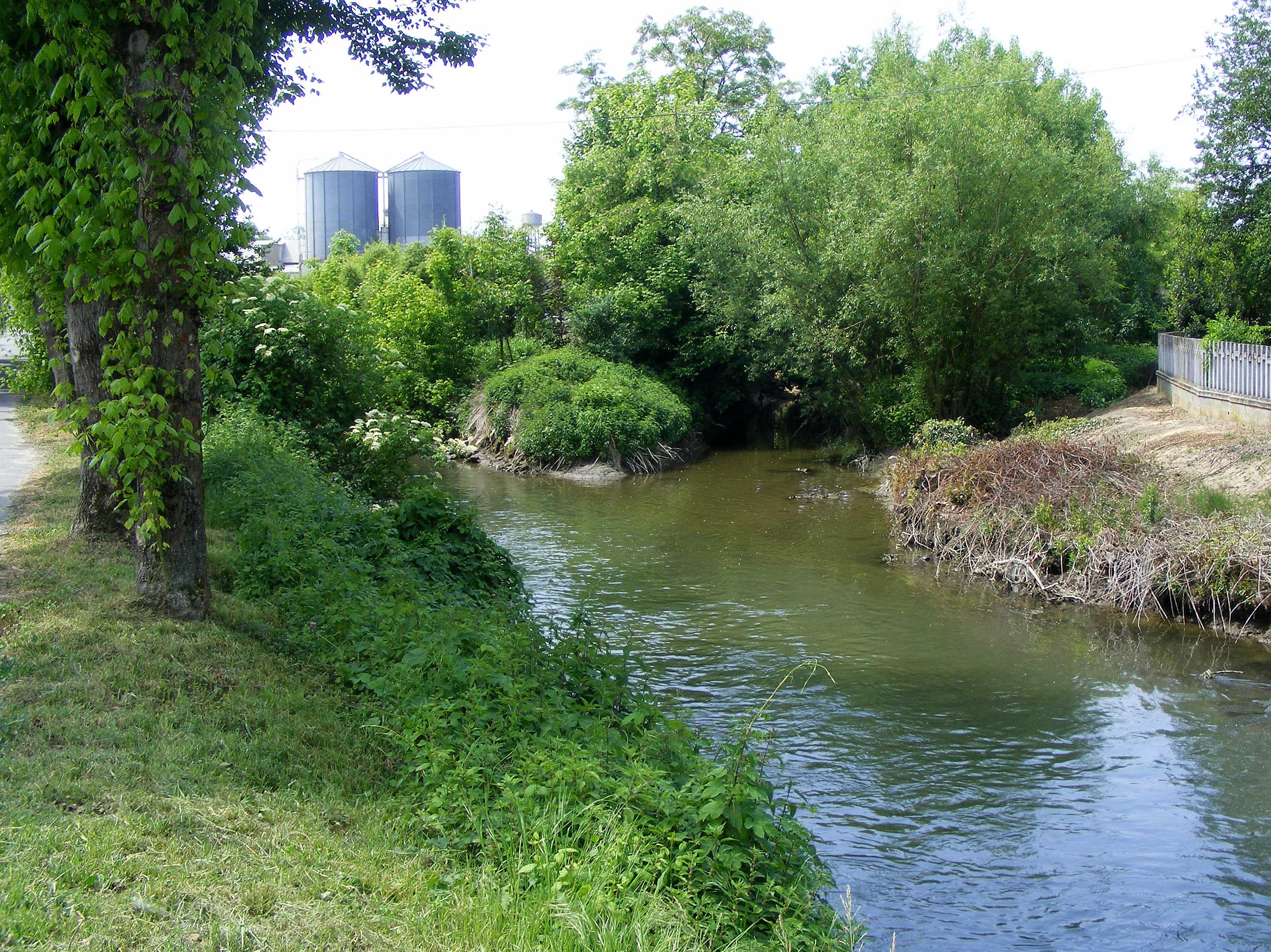 Confluence of Roggia Molinara in the Bona creek (Asigliano Vercellese, VC, Italy)